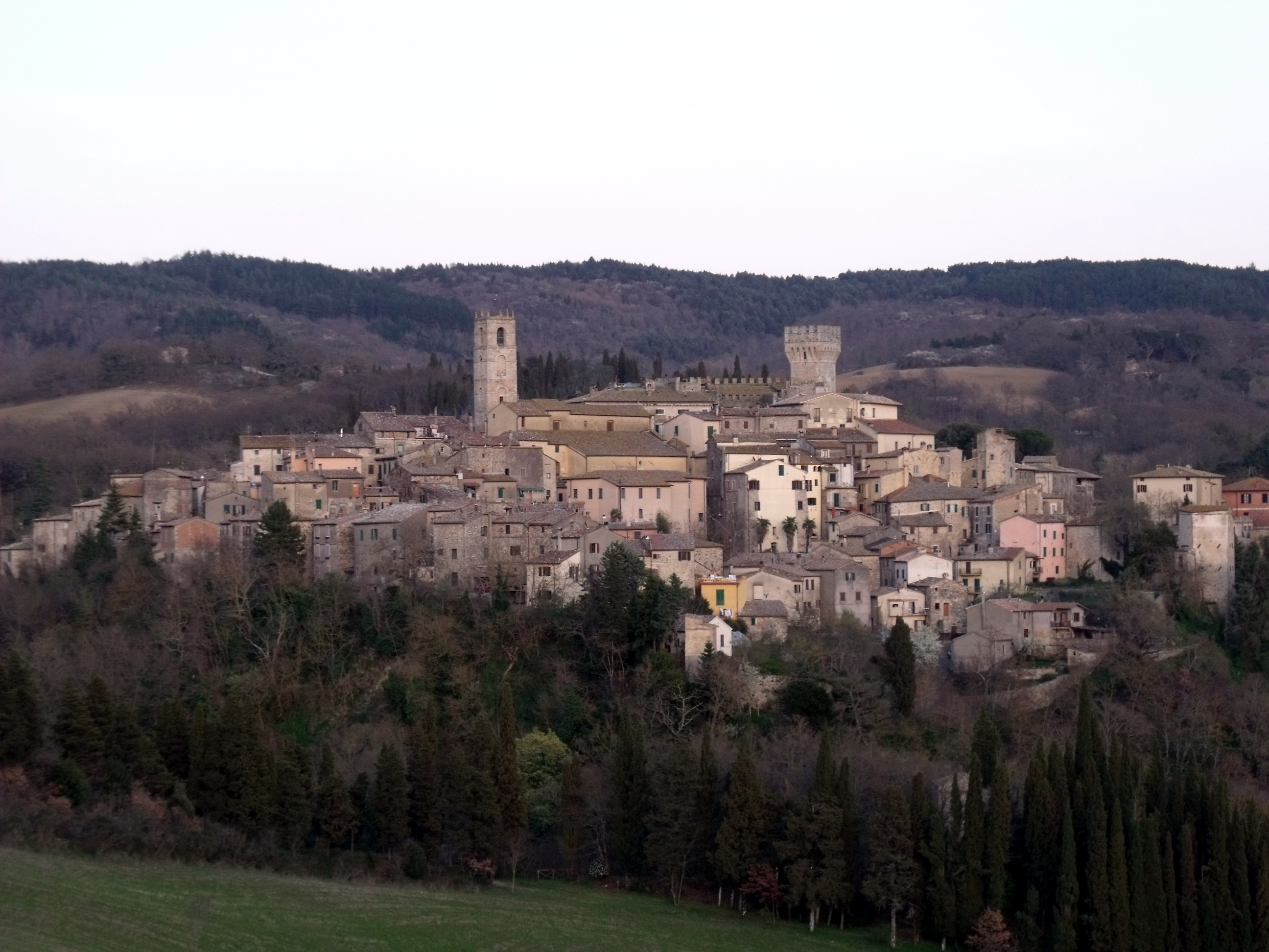 Panorama of San Casciano dei Bagni, Province of Siena, Tuscany, Italy